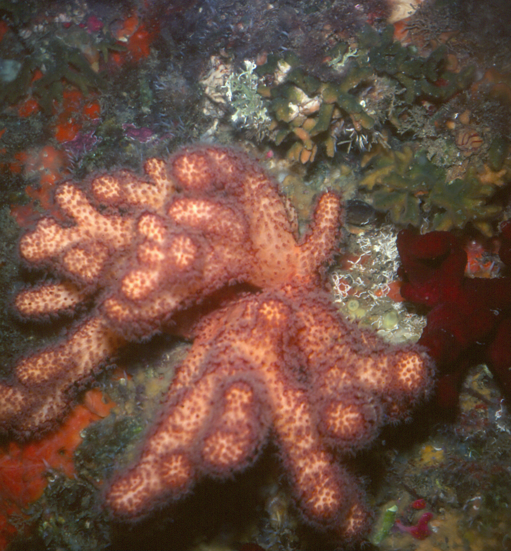 Alcyonium acaule Marion, 1878 - Banyuls-sur-Mer : 08/1980